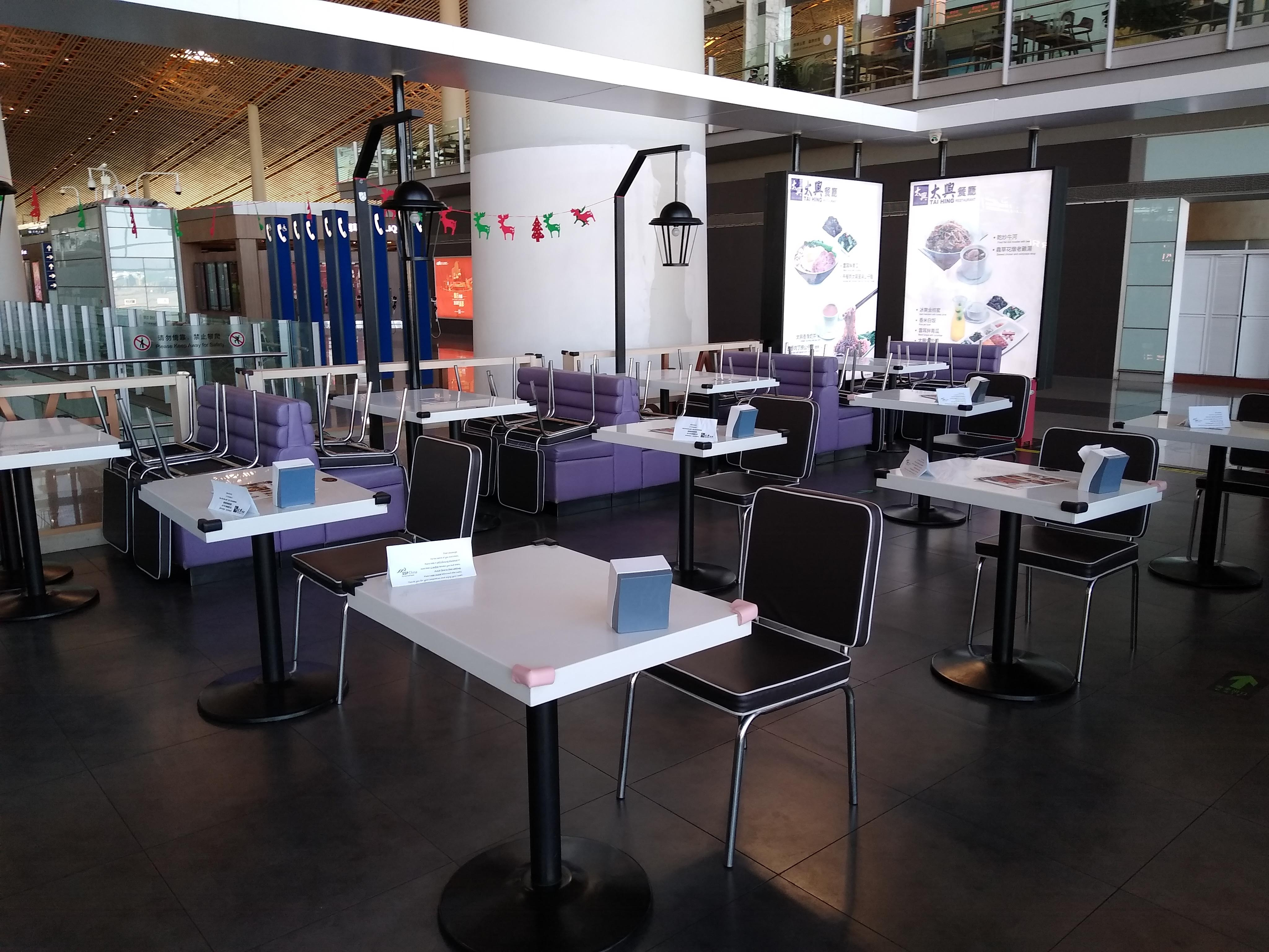 A restaurant (Tai Hing) at Beijing Capital International Airport amid the COVID-19 pandemic. The tables are set up for a minimum distance of 1 meter between patrons.